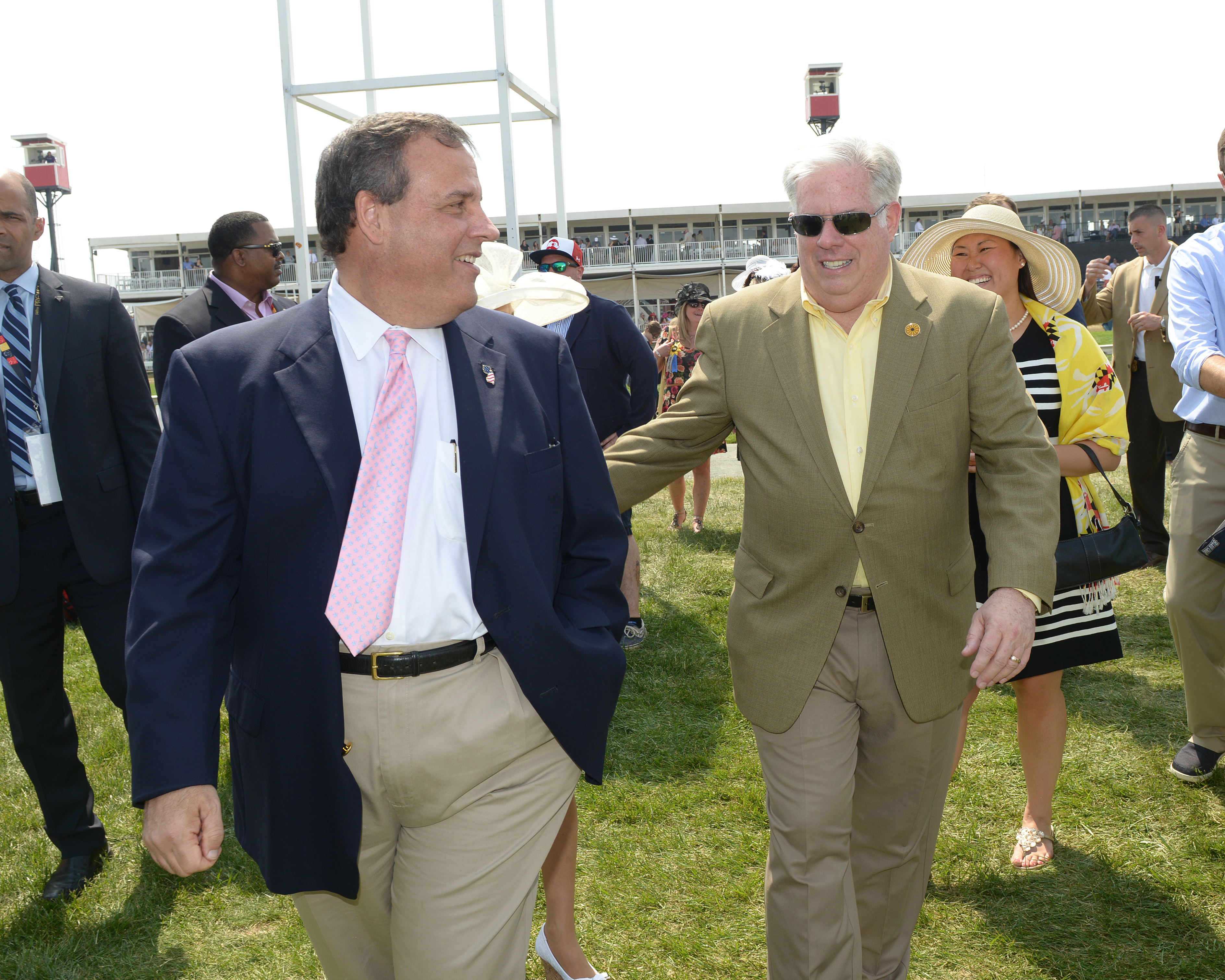 Governor Hogan attends 2015 Preakness Stakes by Tom Nappi at Pimlico, Baltimore, Maryland 2015 Preakness Stakes at Pimlico. A thunderstorm resulted in sloppy track conditions.